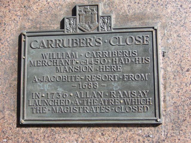 Carruber's Close plaque, High Street. Site of an early, but short-lived attempt by the poet, Allan Ramsay, to reintroduce Theatre to Scotland almost two centuries after playhouses were closed during the Protestant Reformation. 973091